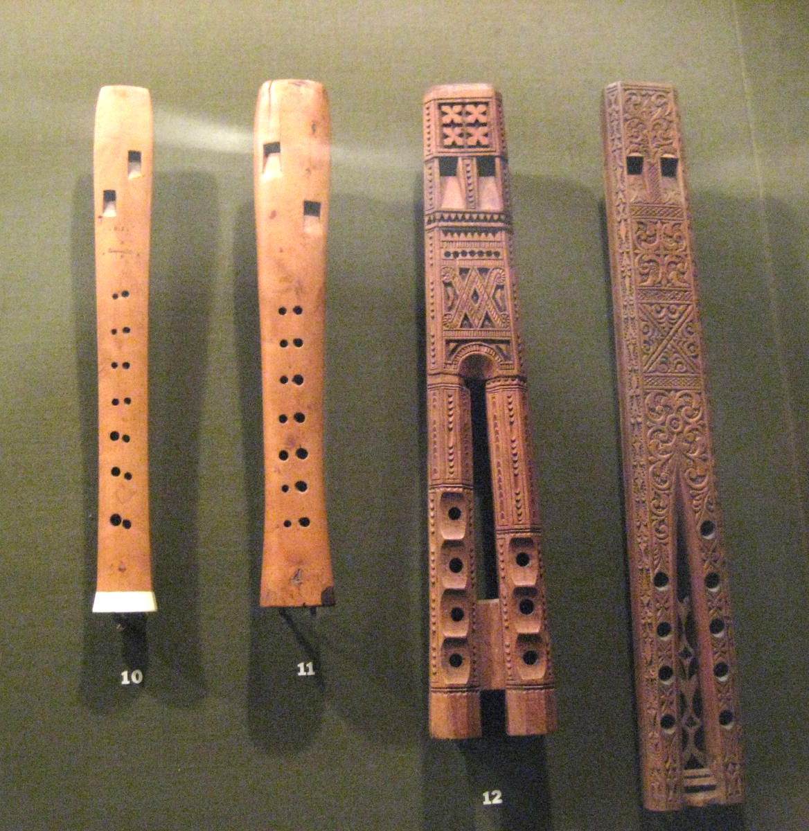 Left: Akkordflute Ulrich Ammann Alt. St. Johann Switzerland c. 1800 Boxwood and ivory Item number: 89.4.2398 Left Middle: Akkordflute Germany Late 18th century Boxwood Item number: 89.4.905 Right Middle: Dvojnice Bosnia 19th century Plumwood Item number: 89.4.1589 Right: Dvojnice Former Yugoslavia, maybe 19th century Maple Item number: 89.4.2904